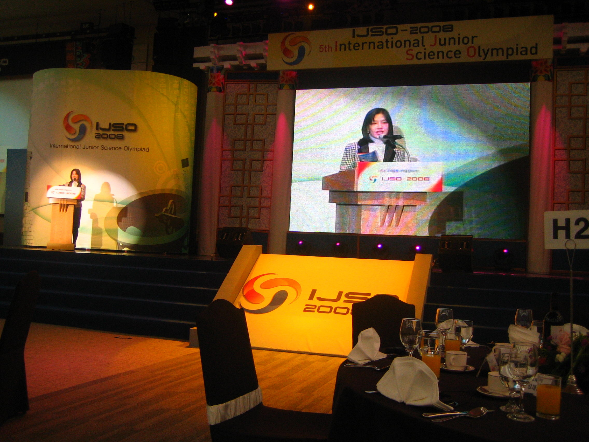 Abertura da IJSO 2008.